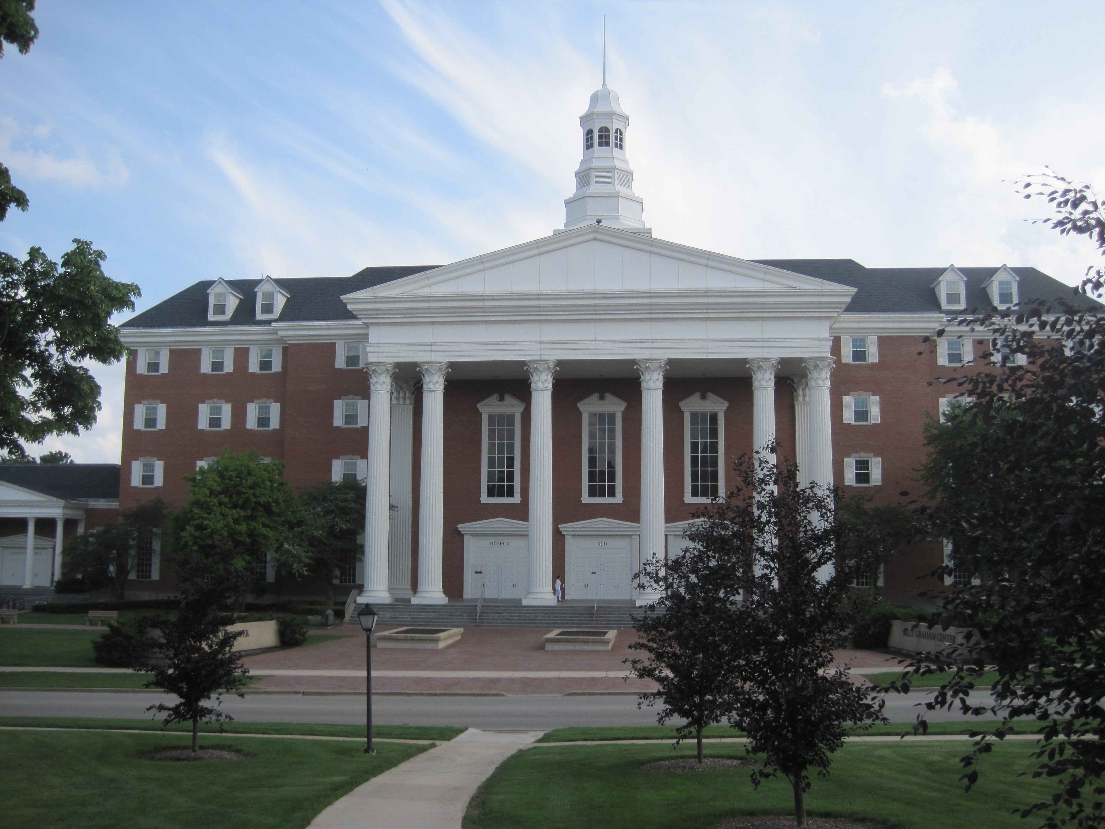 Billy Graham Center